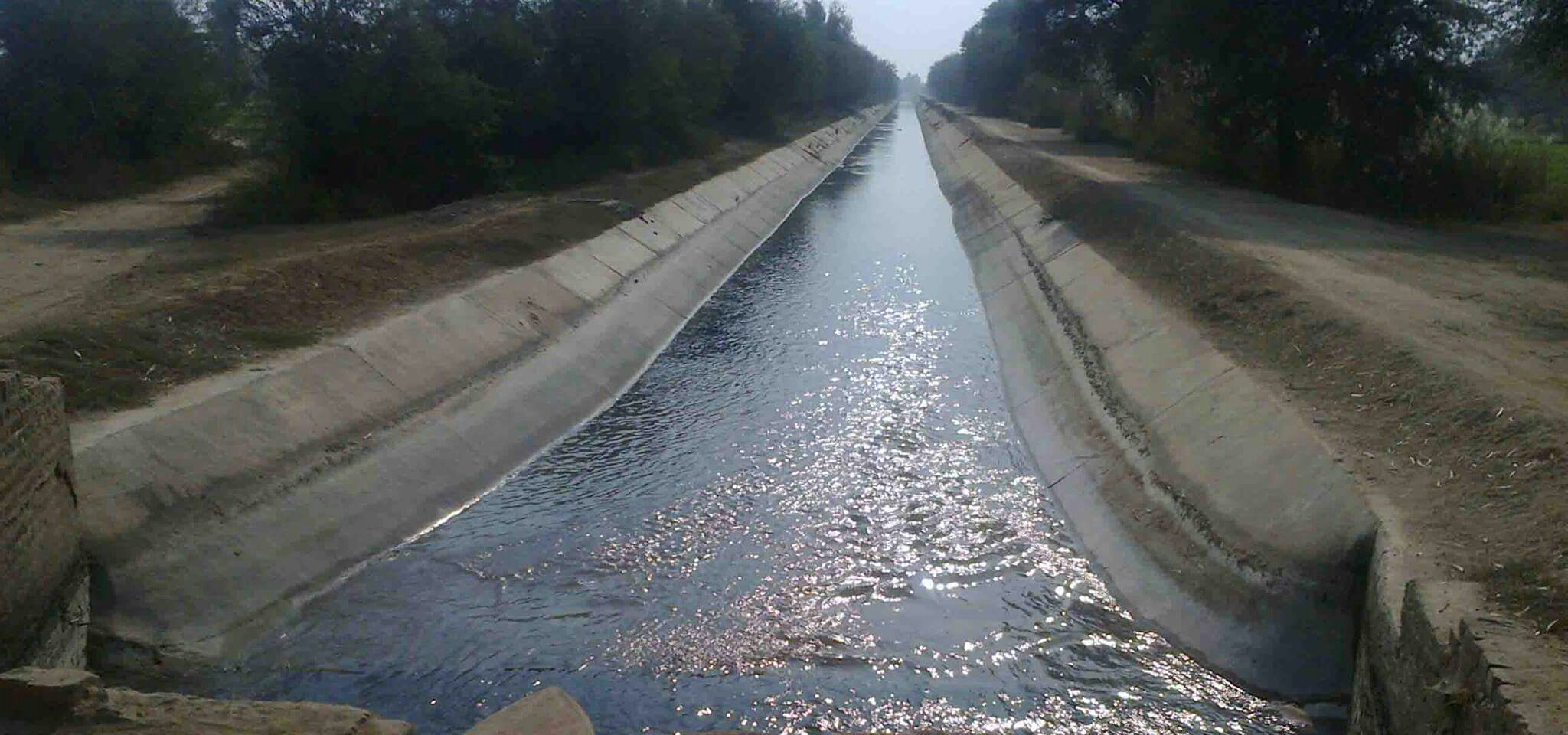 I also Uploaded this Photo on Botala Facebook Page & on website